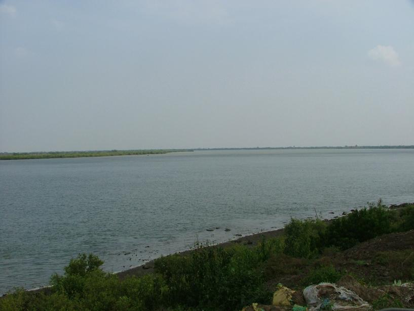 Krishna River meeting Bay of Bengal sea outside Hamsaladeevi village.